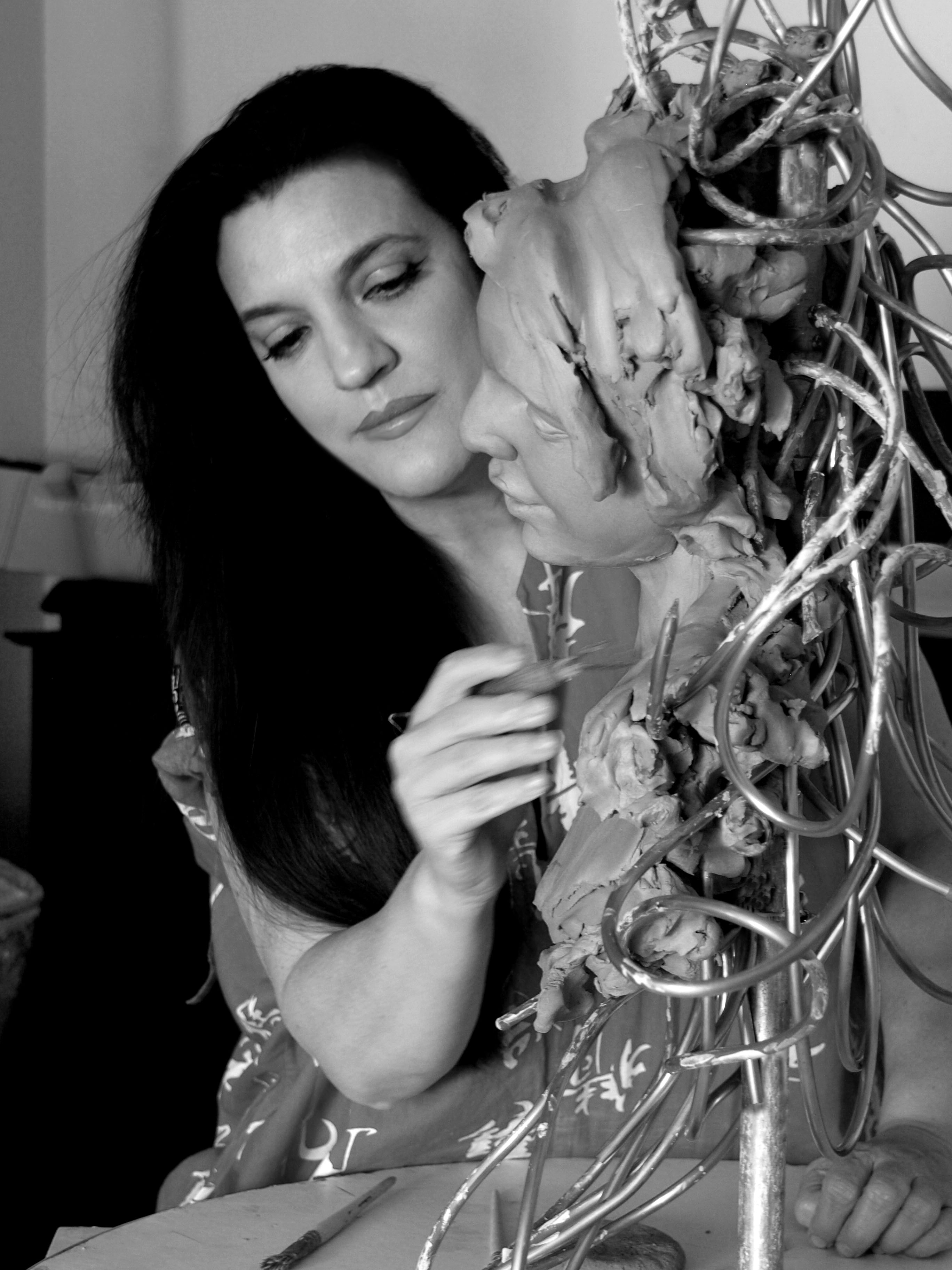 M.L. Snowden Working On Clay Over Armature